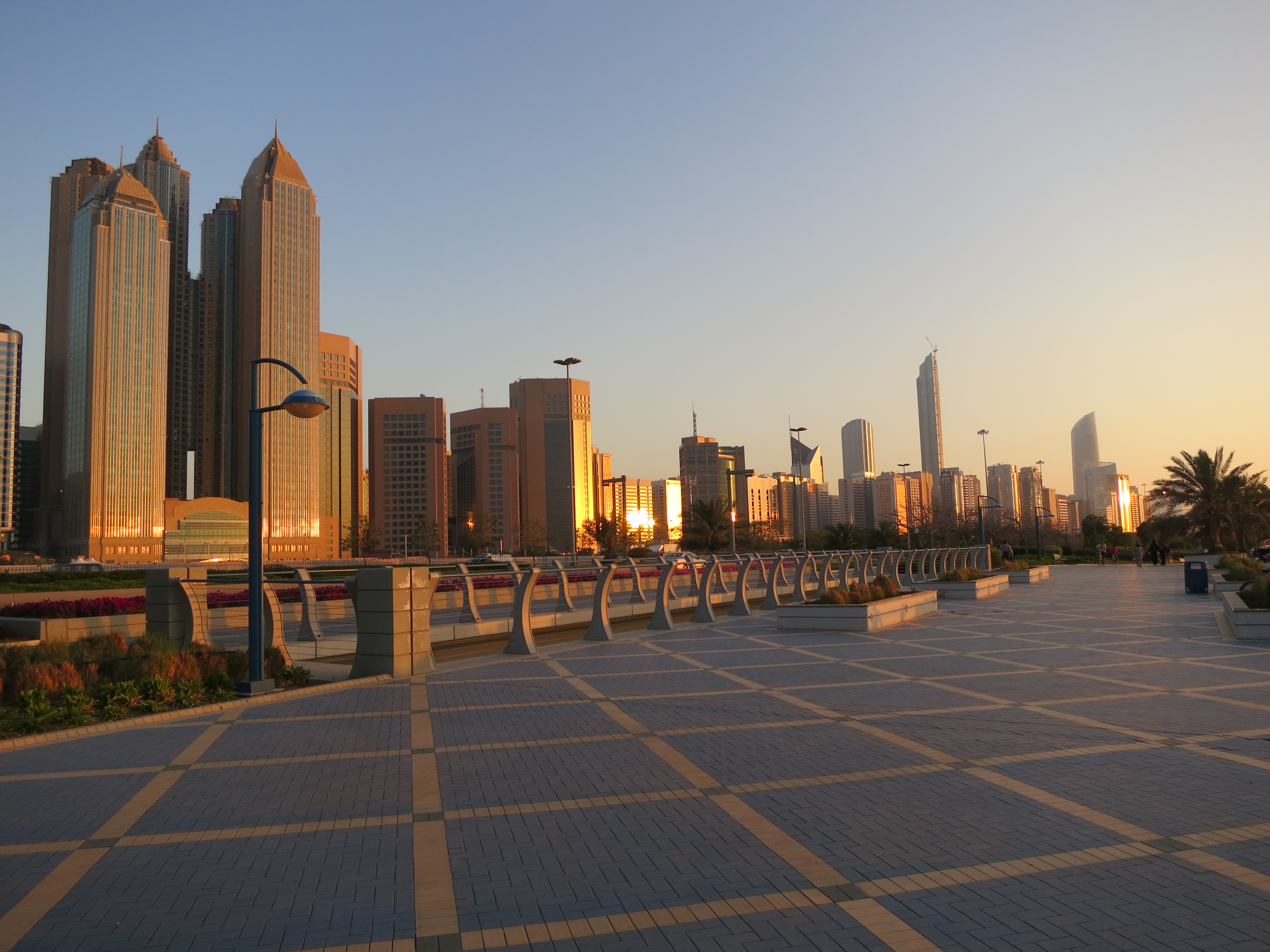 Abu Dhabi skyline at sunset